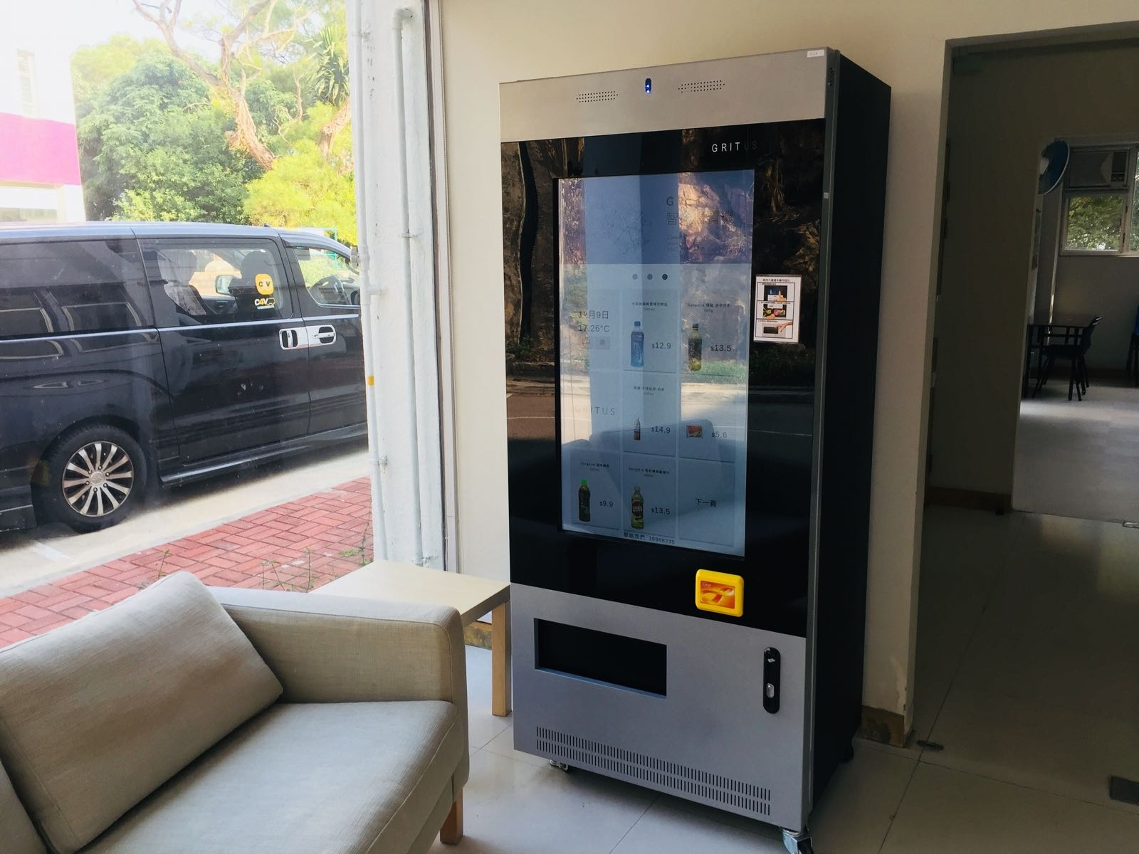 A smart vending console deployed at I-House Block 4, CUHK.